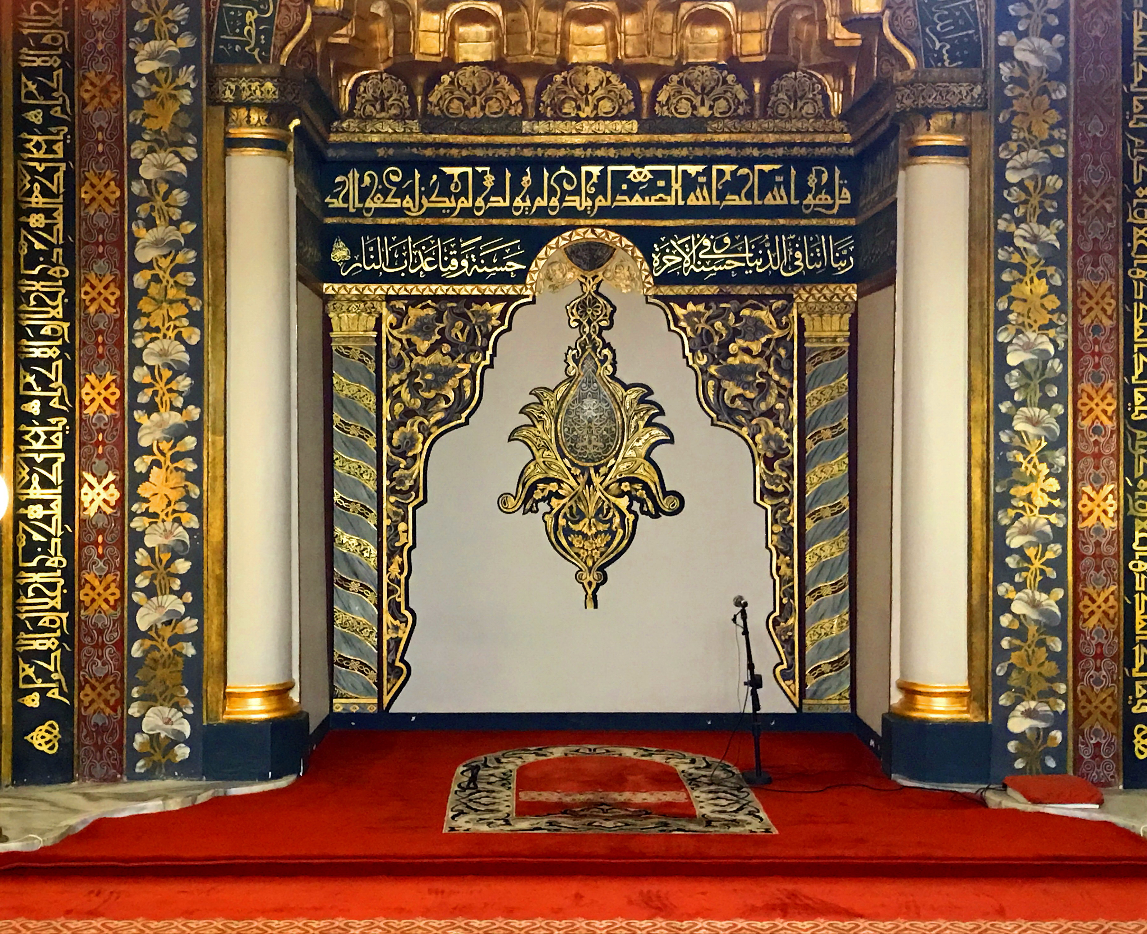 Mihrab of "Ulu Cami" (Grand Mosque of Bursa), Bursa, Turkey.